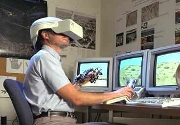 Person with a head-mounted display (HMD), wired glove and joystick.